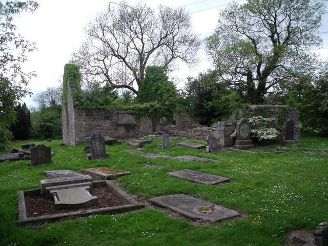 West Church Despite the ruined appearance there are recent graves, some bearing fresh flowers.